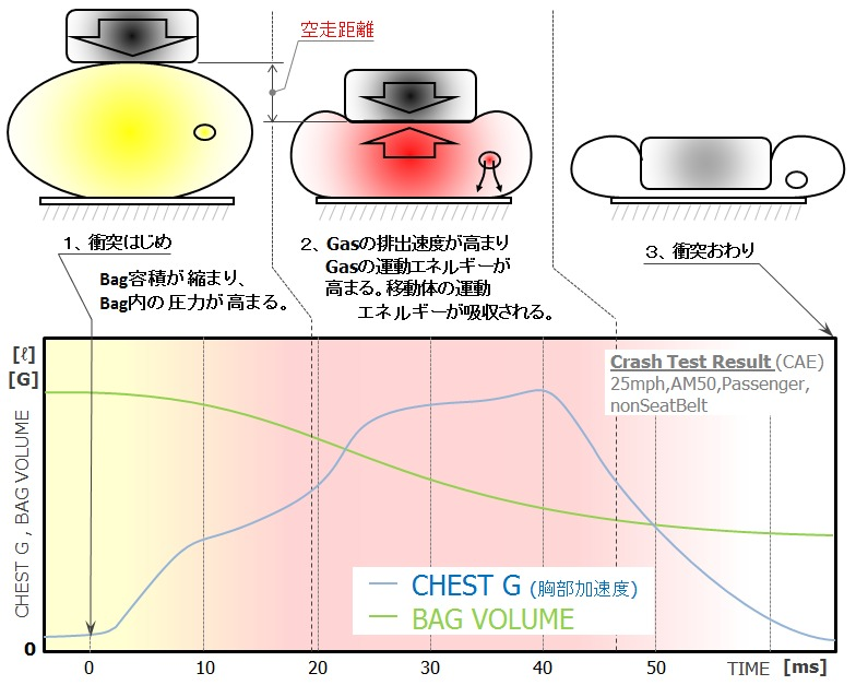 Airbag EA Conception diagram